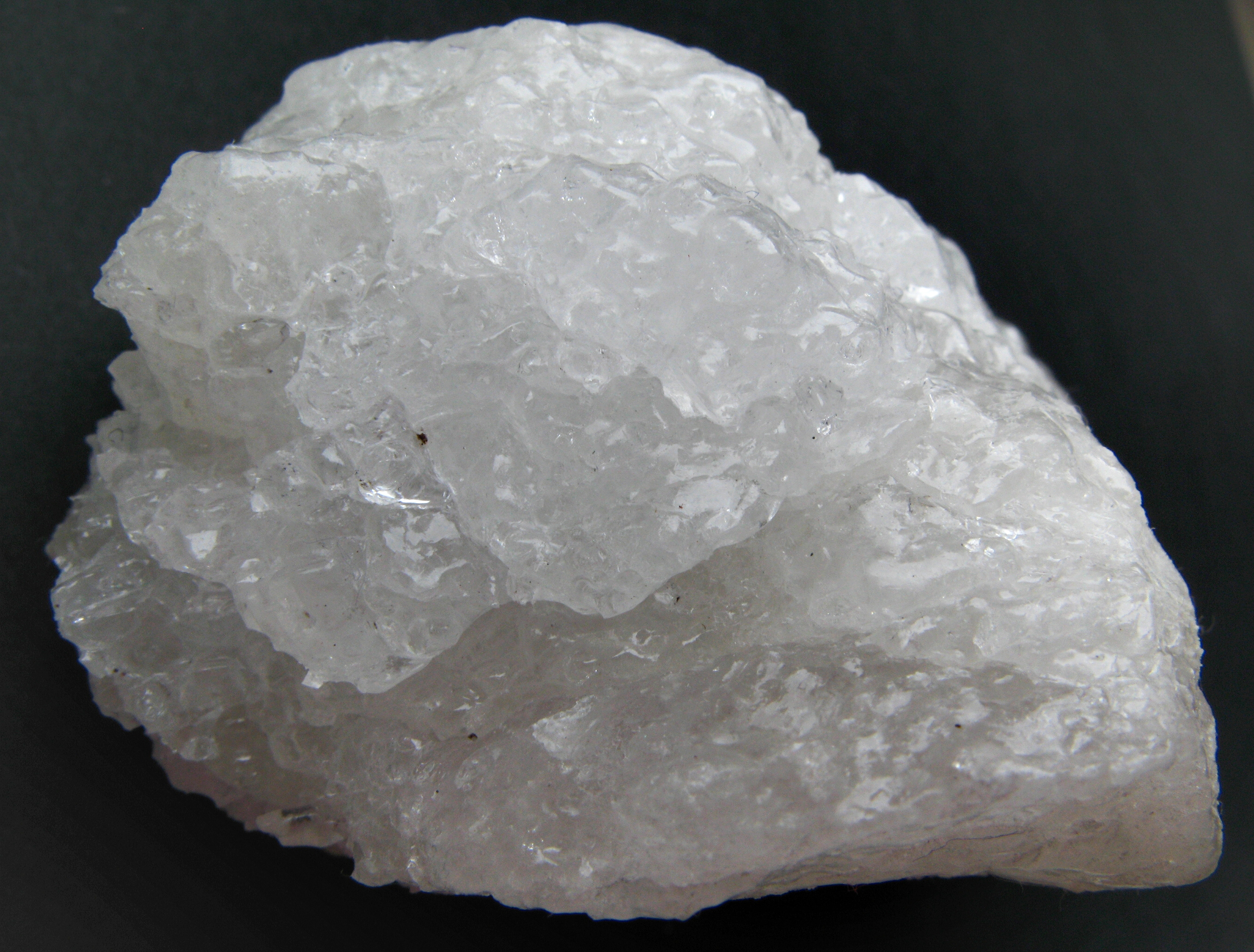 Cryolite